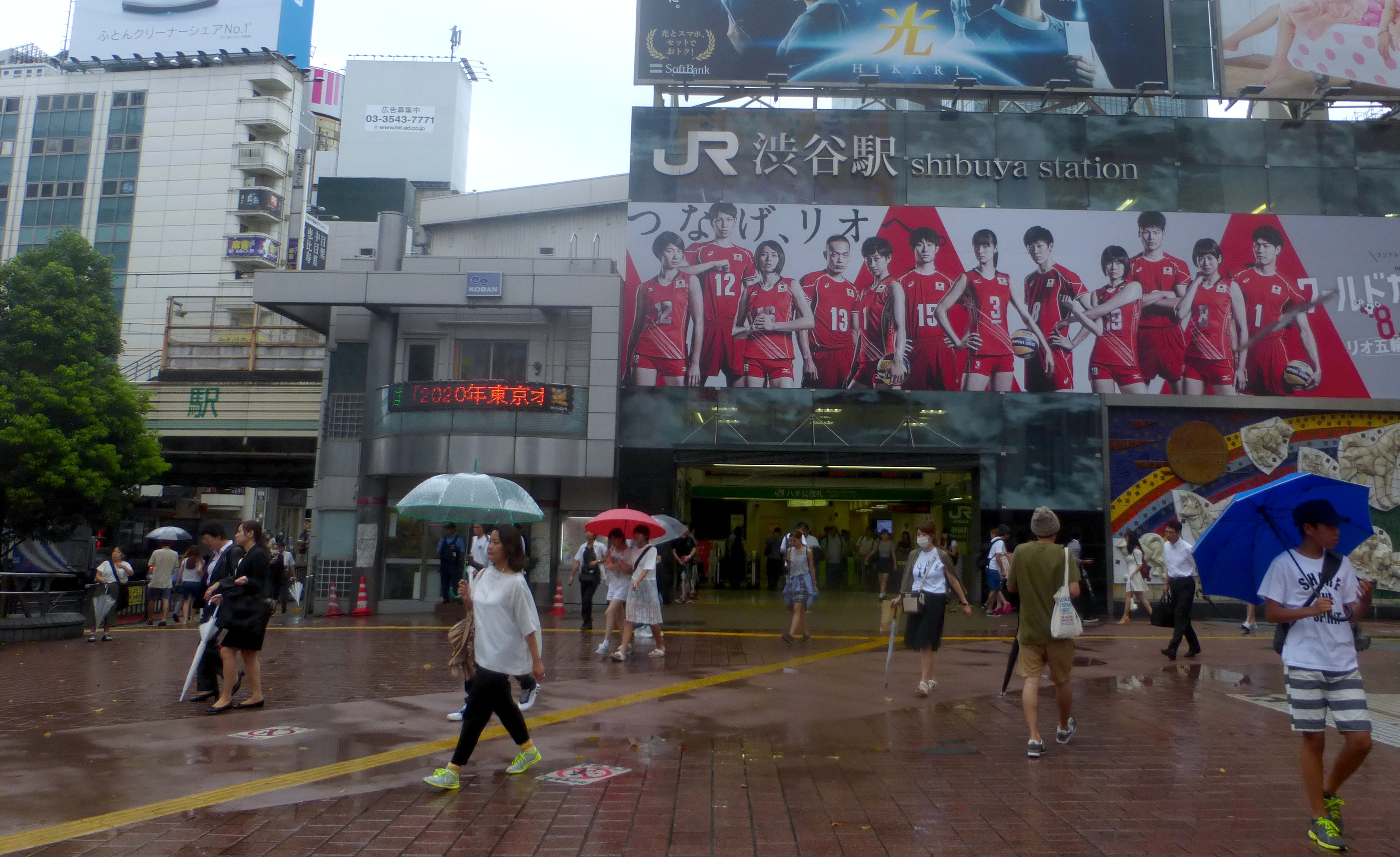 Shibuya Station Hachiko Exit and Koban